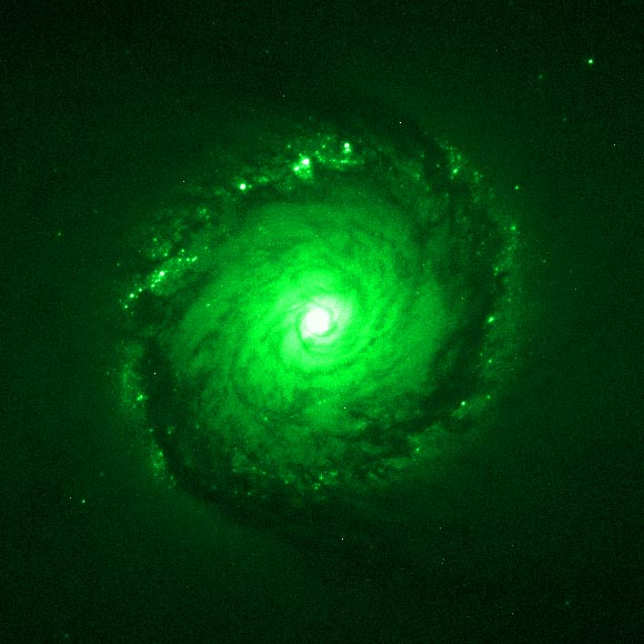 ABOUT THIS IMAGE: The green (5454 Å) is visible light. Image taken by HST's Wide Field and Planetary Camera 2. Object Name: NGC 1512 Image Type: Astronomical